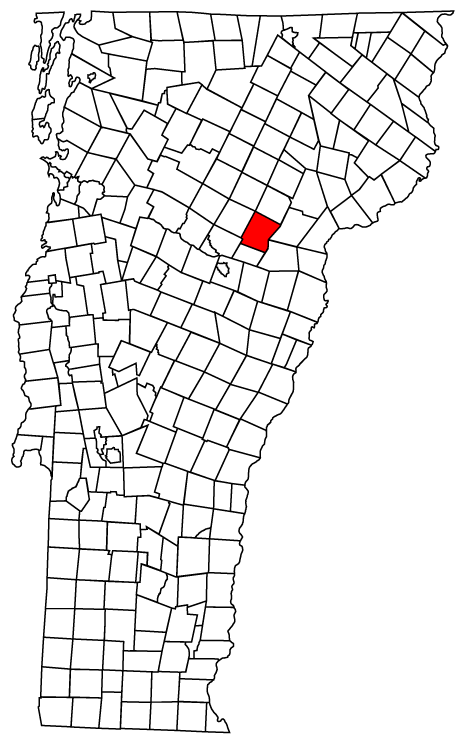 Description: Map of Vermont towns with Marshfield highlighted Source: Map created by Jared C. Benedict on 26 March 2004. Copyright: © Jared C. Benedict. Category:Marshfield, Vermont